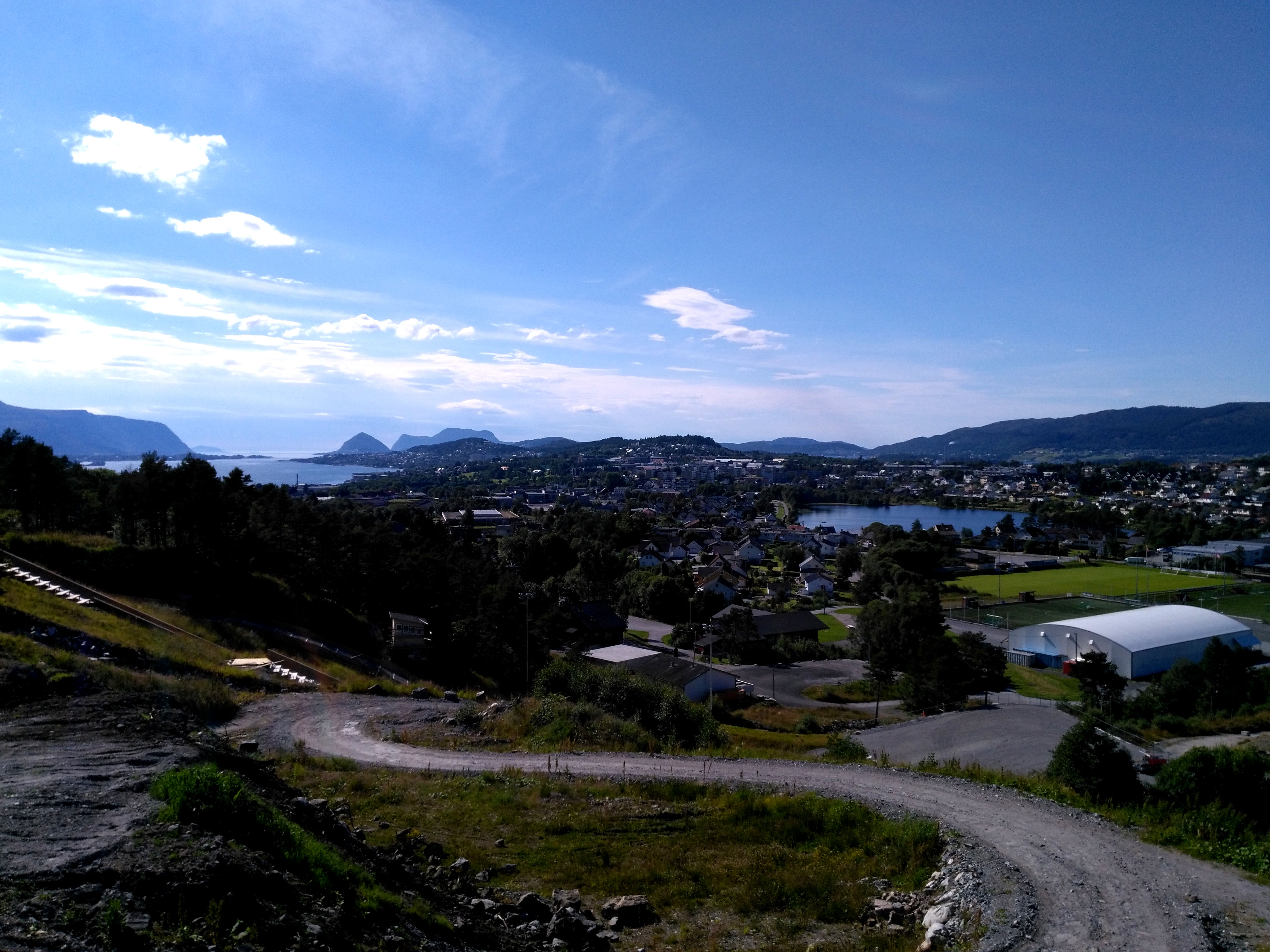 Spjelkavik is a suburb of the town of Ålesund.